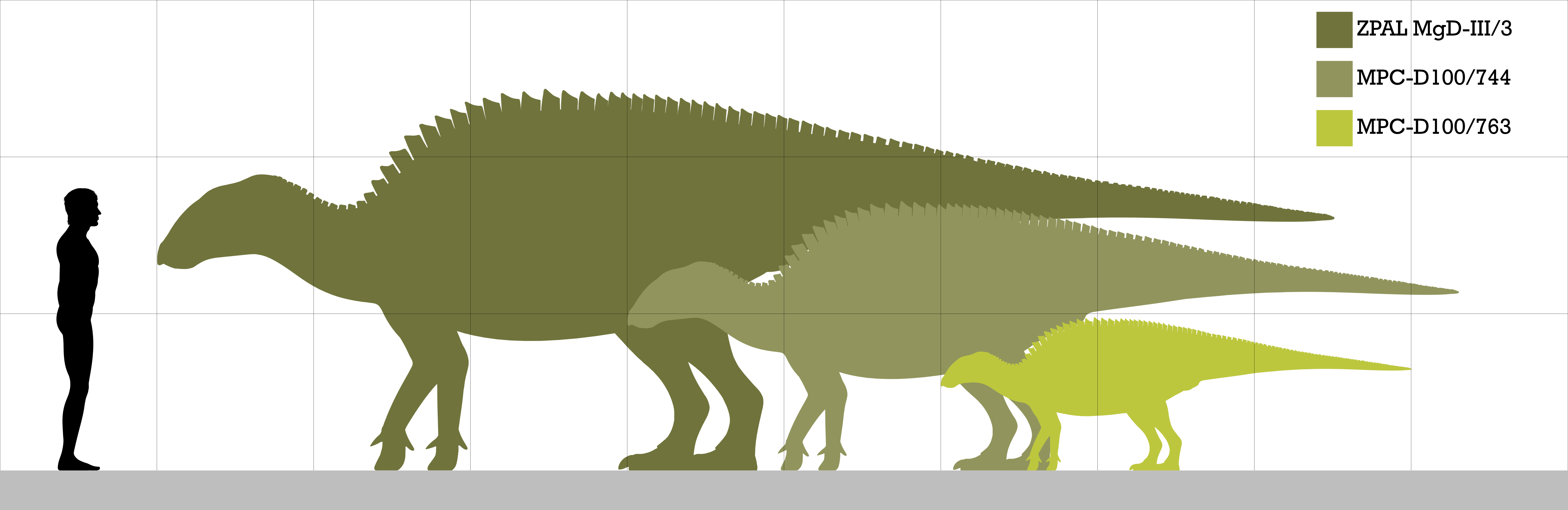 Size comparison of three specimens of Gobihadros mongoliensis representing growth stages. The advanced age of ZPAL MgD-III/3 indicates that 7.5 m (25 ft) was likely the top size in this species, in contrast to MPC-D100/763, which is represented by an immature individual.[1][2] Color Key ZPAL MgD-III/3 length = 7.5 m (25 ft) MPC-D100/744 length = 5.3 m (17 ft) MPC-D100/763 length = 3 m (9.8 ft) ___________________________________________________________________________________________________________